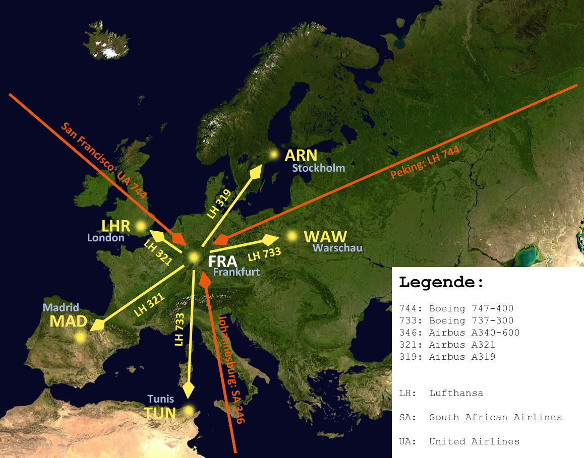 A map of Europe to show how an airport-hub is working. Using the example of Lufthansa based in FRA/EDDF. I added some common routes and common aircraft types, flying this route. For better understanding I added a caption.